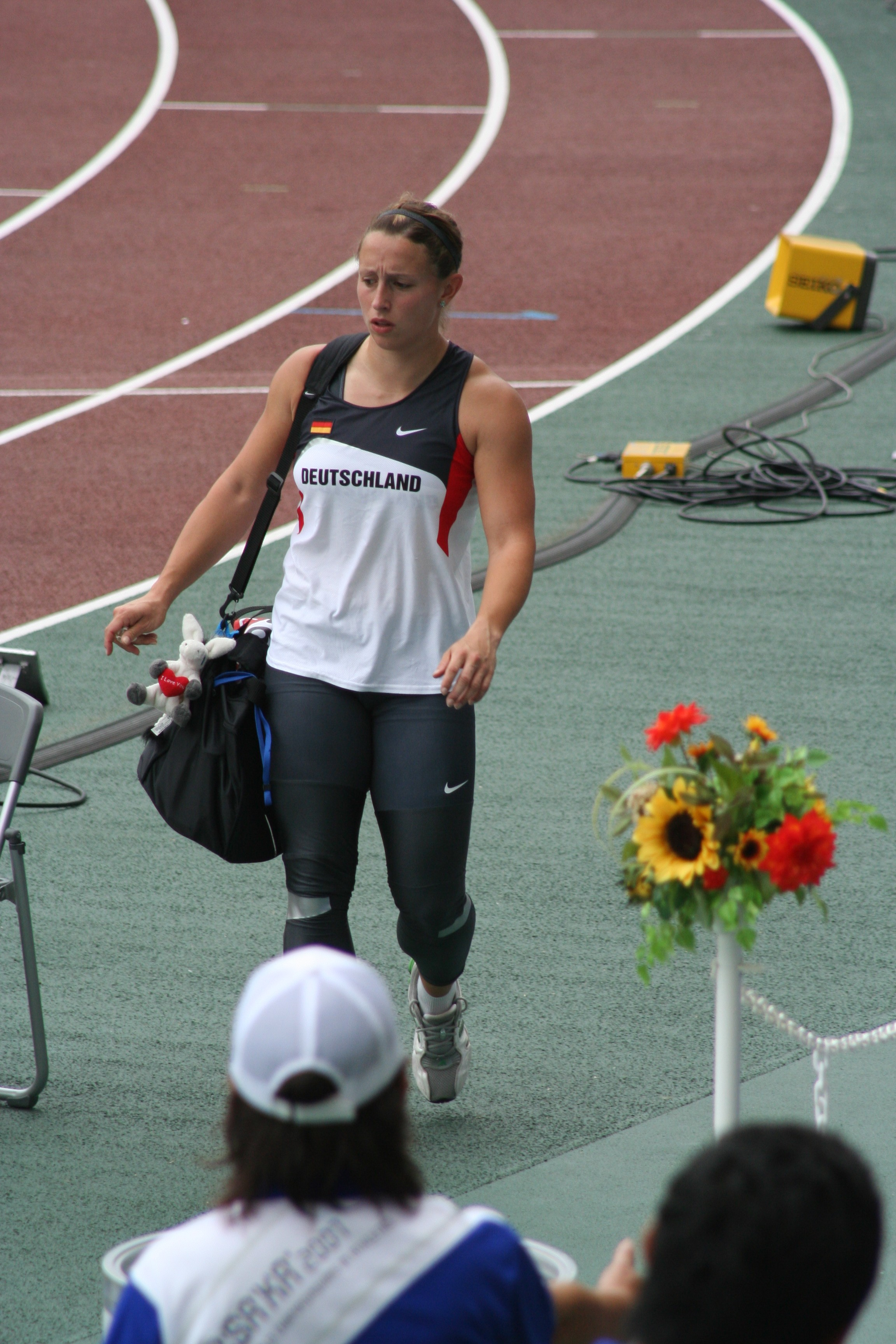 World Athletics Championships 2007 in Osaka - German hammer thrower Kathrin Klaas after her elimination during the qualification